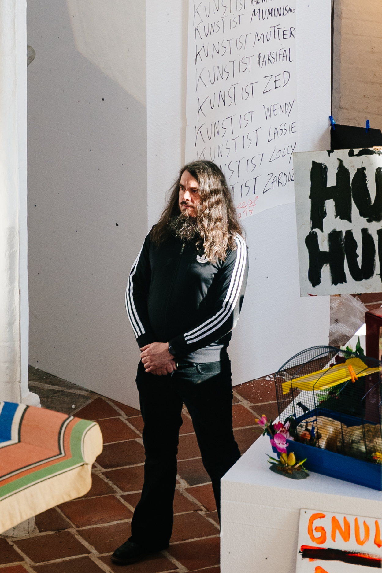 Jonathan Meese in 2019